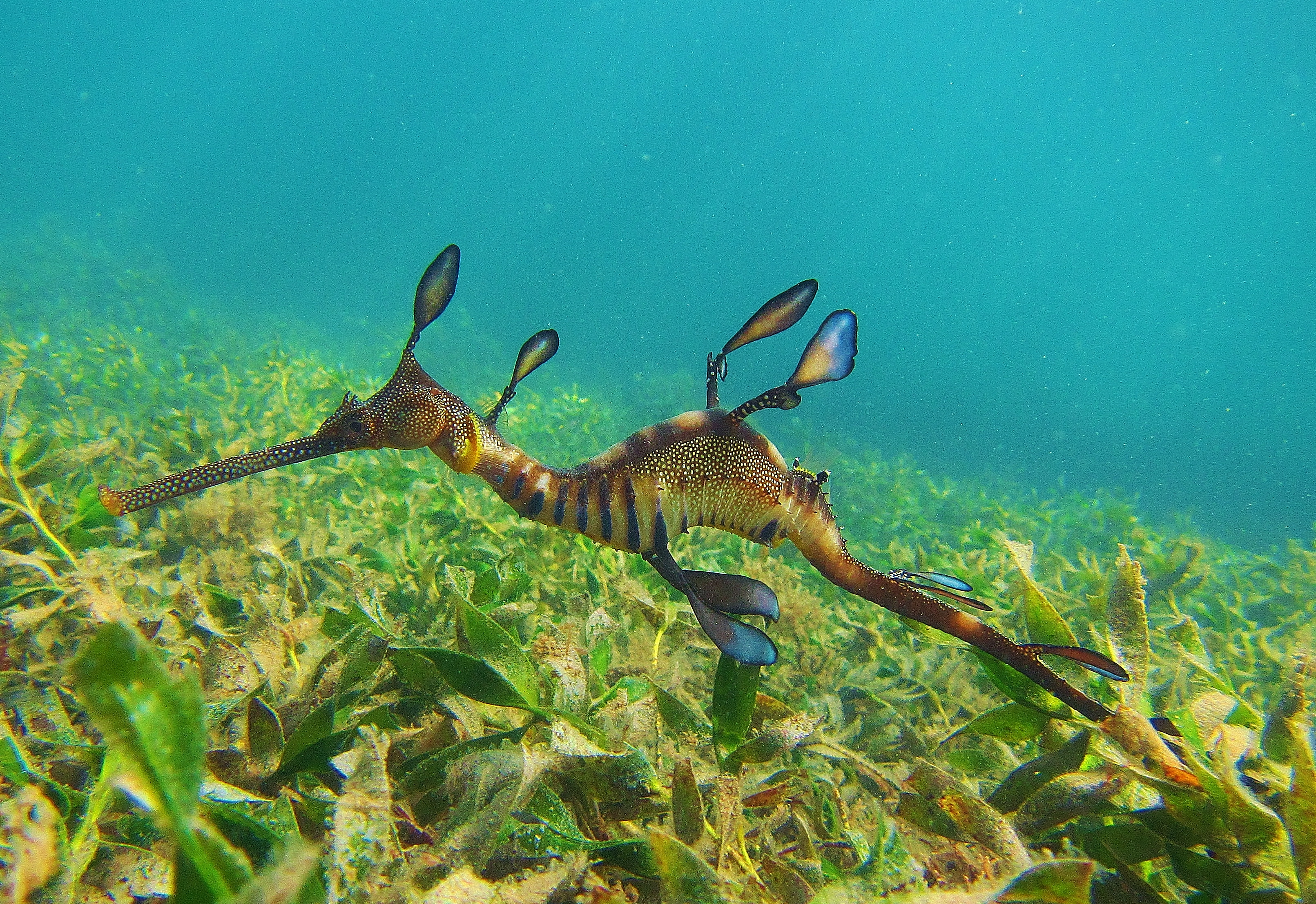 The weedy sea dragon is the marine state emblem for Victoria and a spectacularly camouflaged relative to the seahorse. We are lucky enough to have a resident population in Western Port Bay, Mornington Peninsula and this picture was taken at Flinders Pier using a compact Canon Powershot d20 camera.